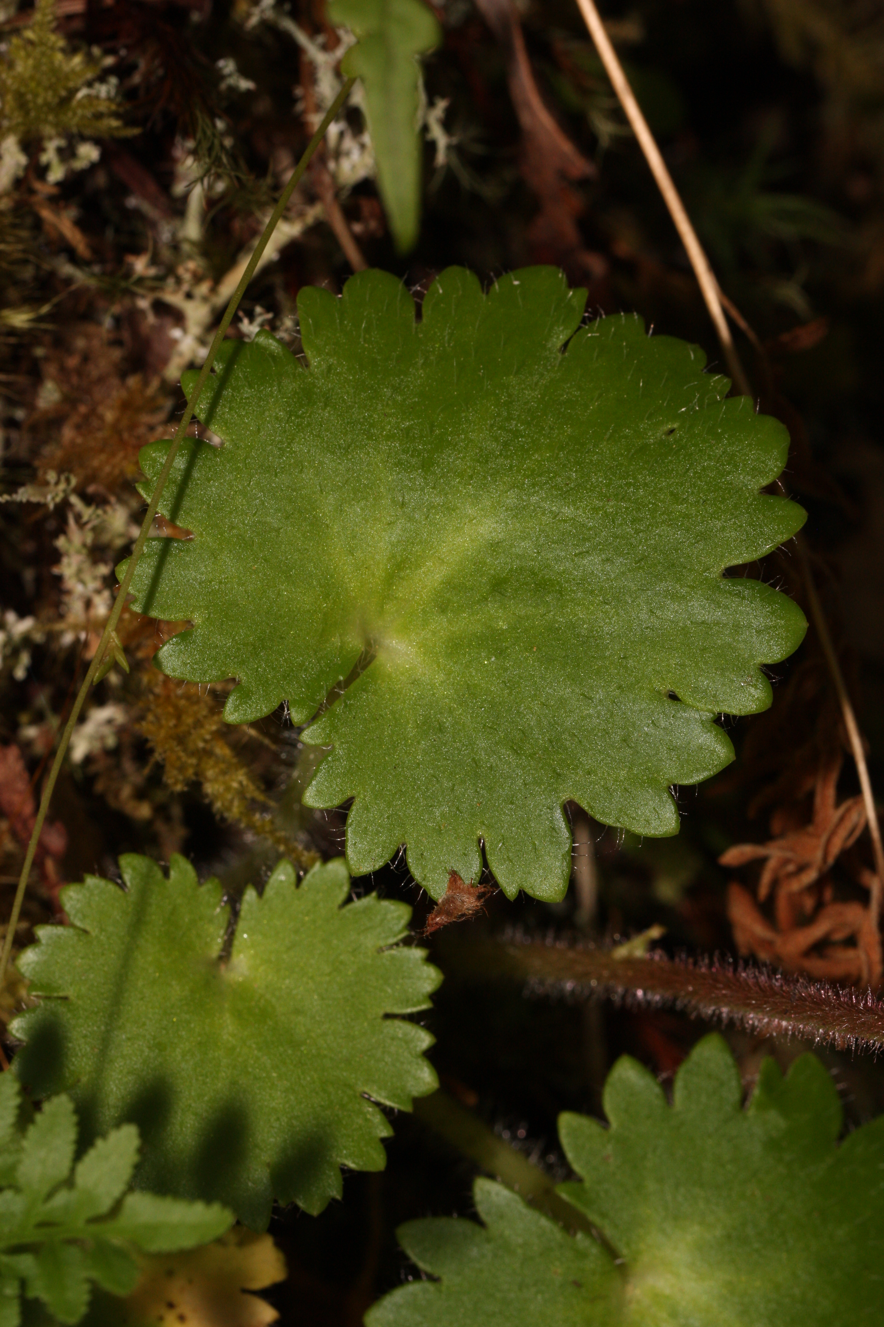 Wood Saxifrage, Woodland Saxifrage, Merten's Saxifrage Viewpoint location: Rainie Falls Trail Rogue Wild and Scenic River Viewpoint elevation: 211 meter (692 ft) Location source: Garmin GPSmap 60CSx Location Datum: WGS84